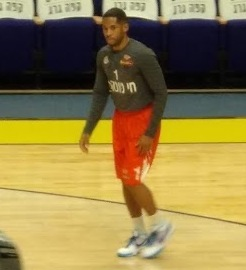 Maccabi Tel Aviv B.C. vs Ironi Nes Ziona B.C. (01) - 25 March 2019